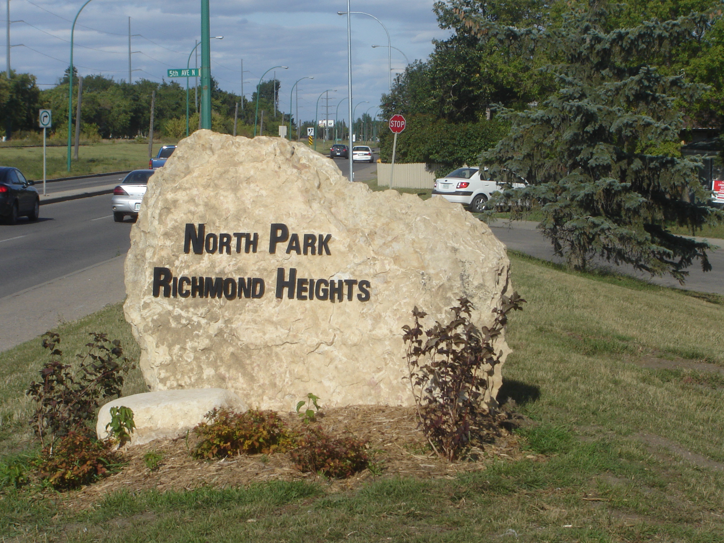 North Park Richmond Heights Saskatoon 2nd Avenue North between the Central Business District and the north end in the background.